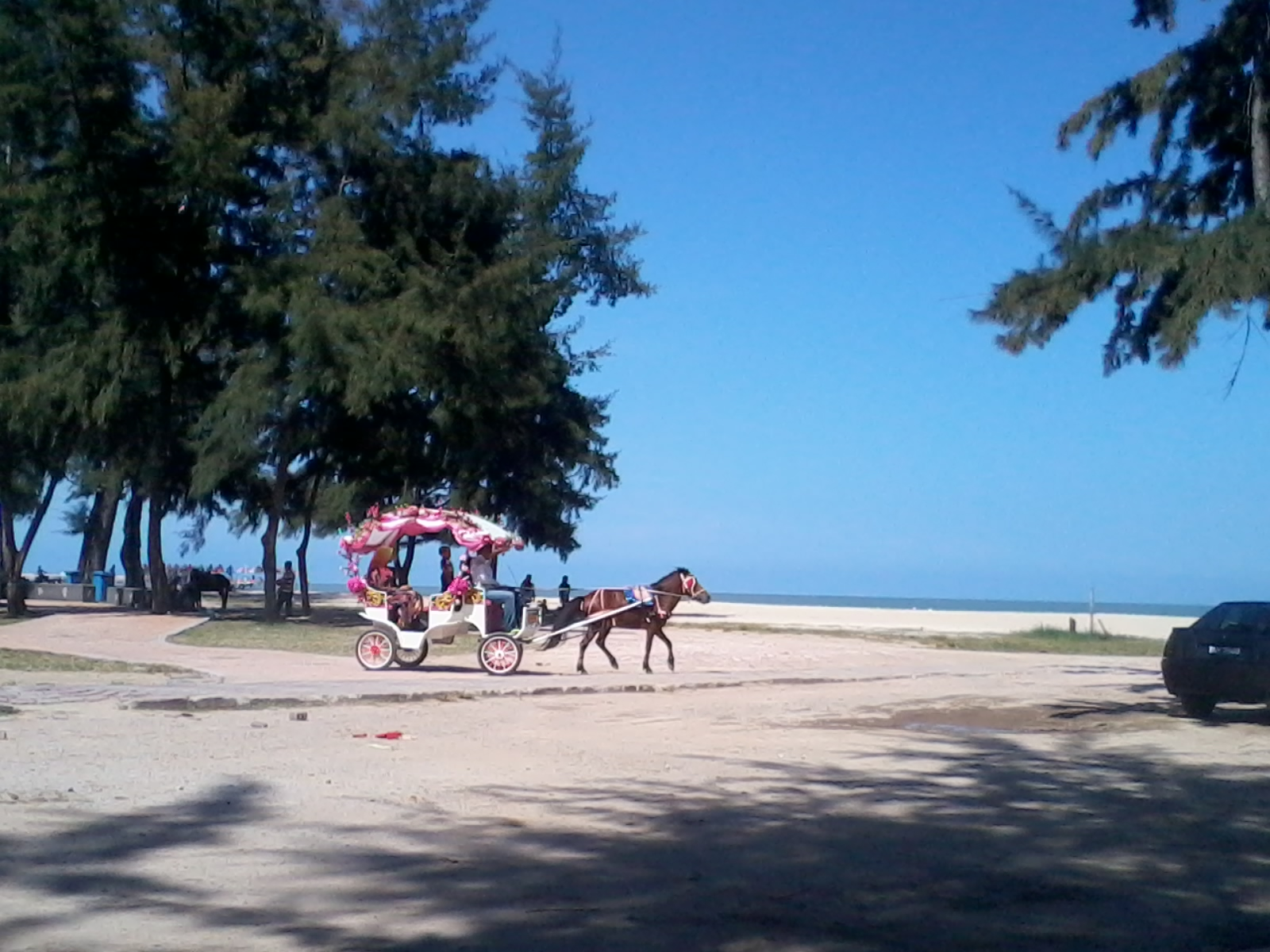 Batu Buruk Beach